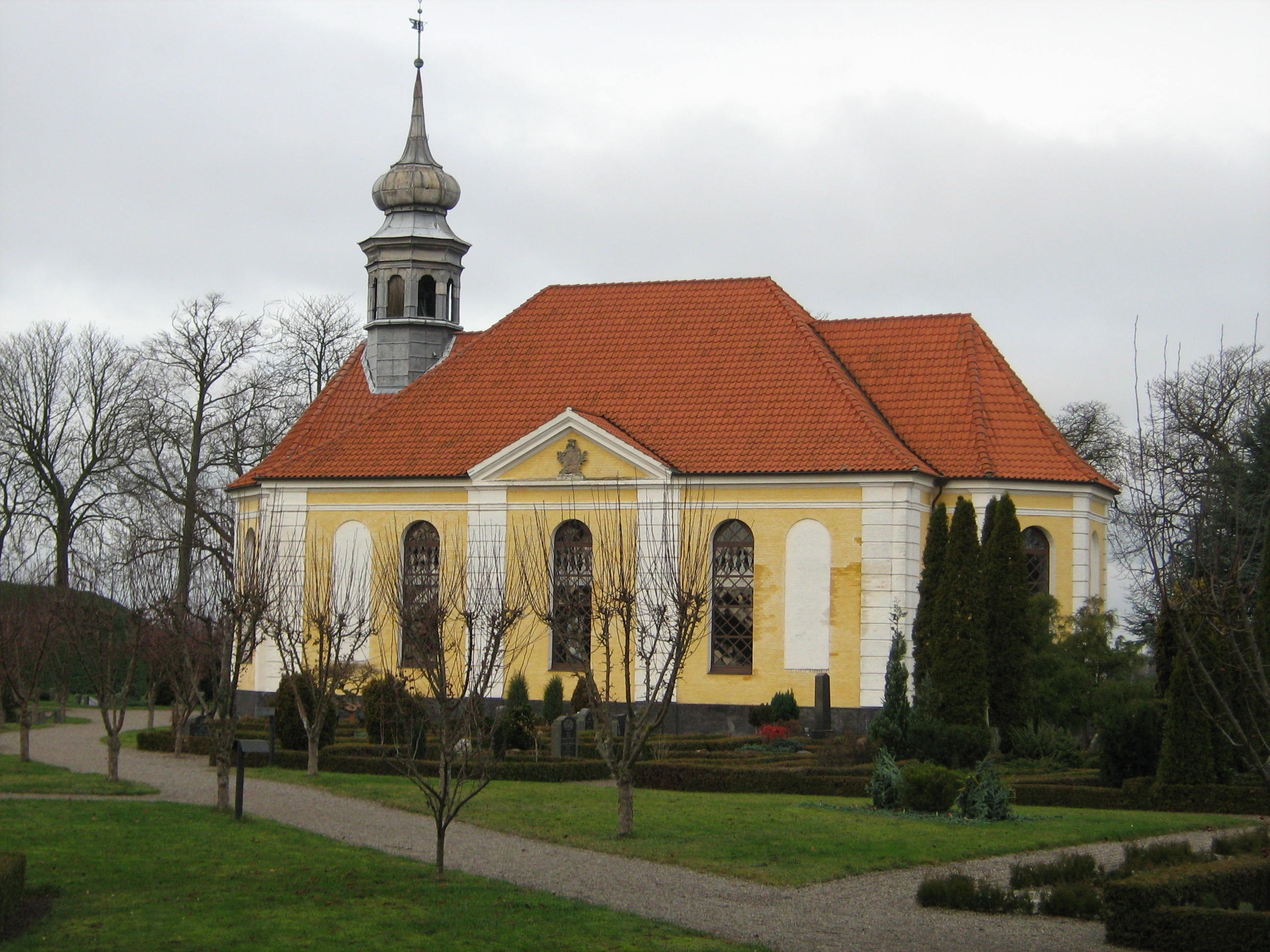 Damsholte Kirke (Damsholte Church), Møn, Denmark. Only Danish village church in the Rococo style.